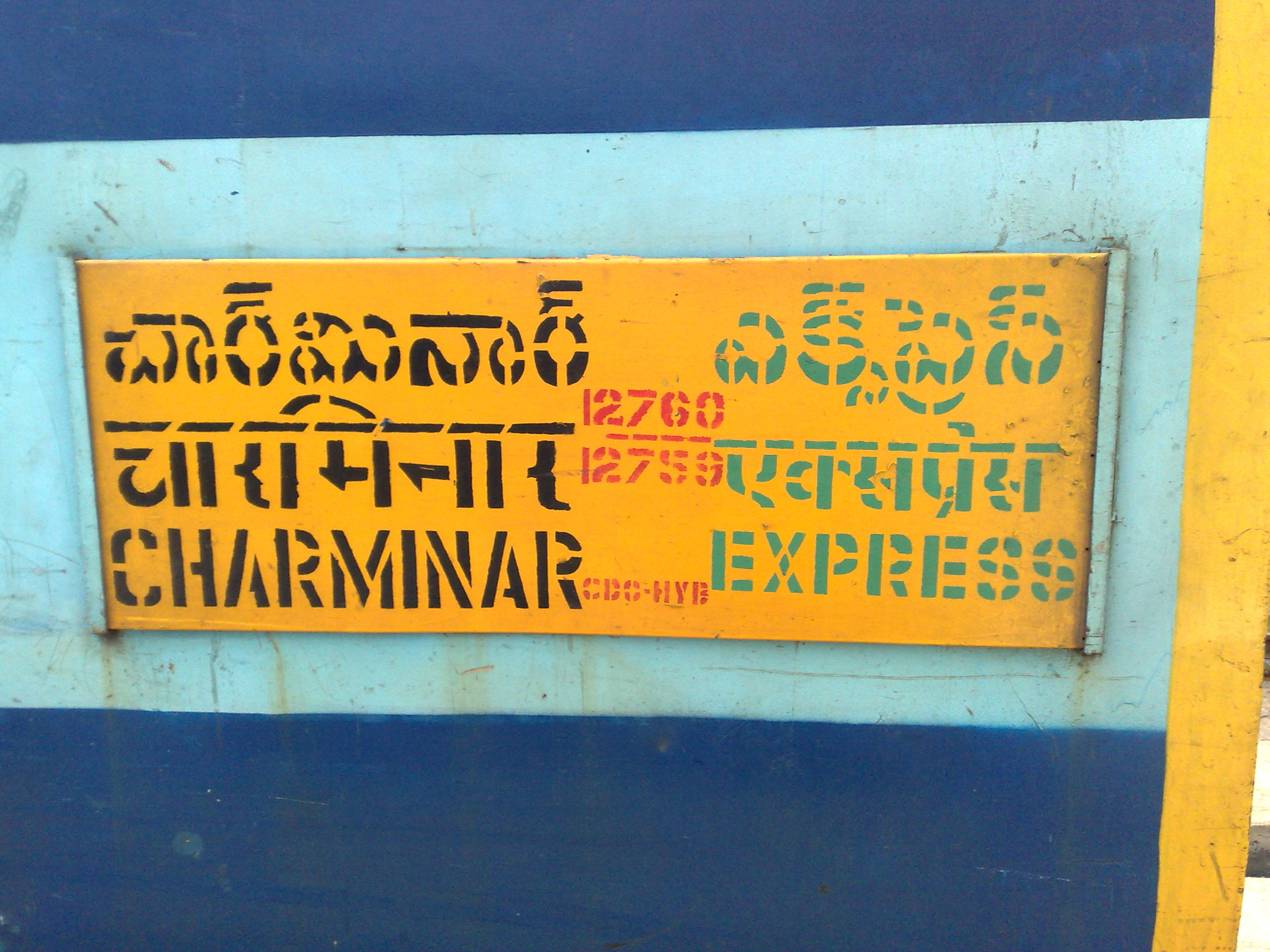 12759 Charminar Express